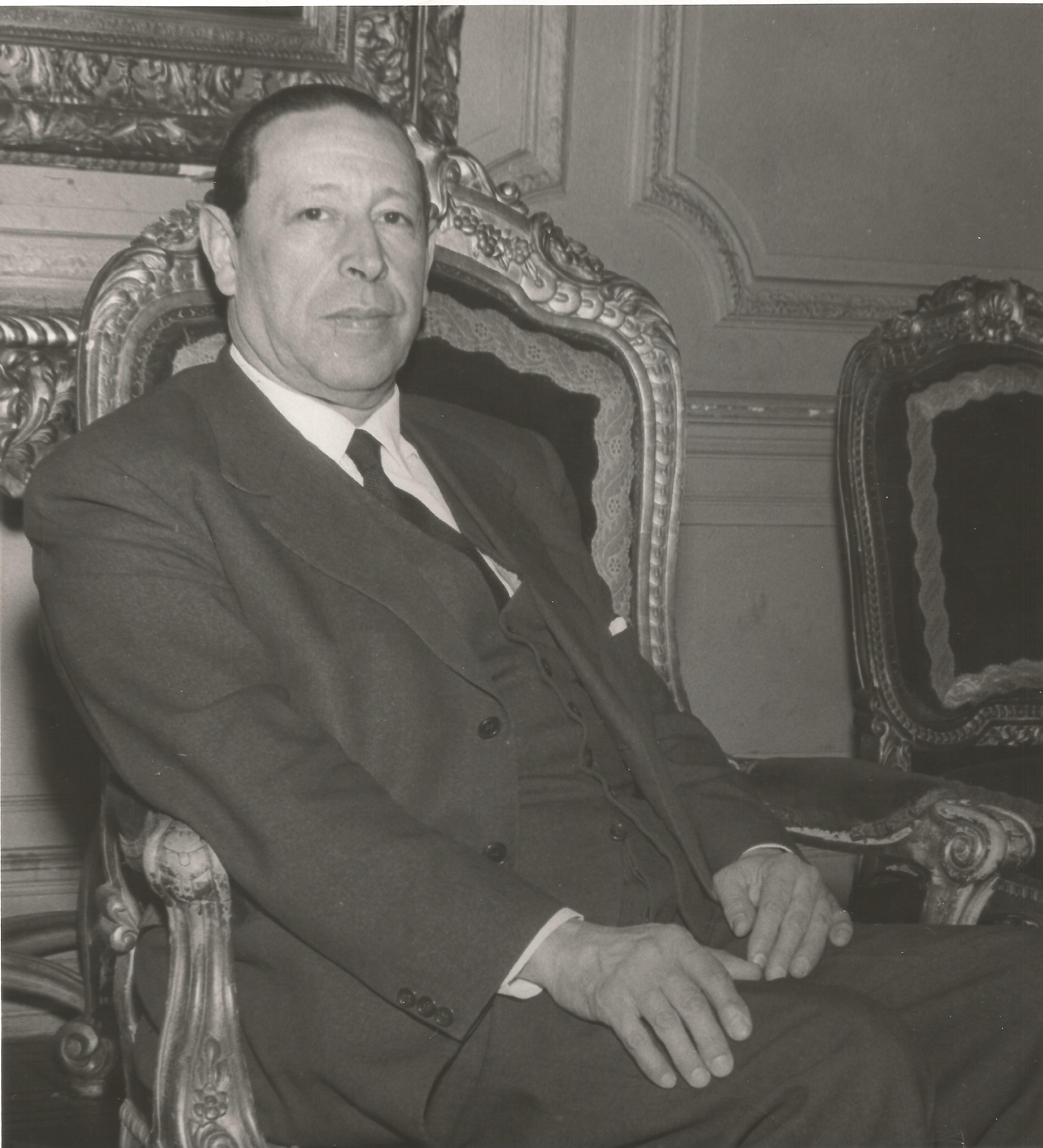 Chilean senator Hugo Zepeda Barrios in 1962